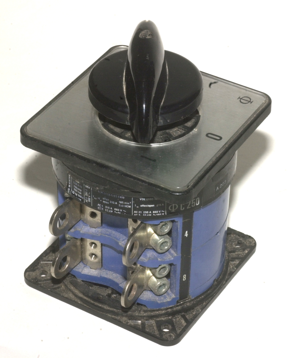 Kraus & Naimer 4 pole single throw (on-off) switch rated at 315 amps at 600 volts AC.